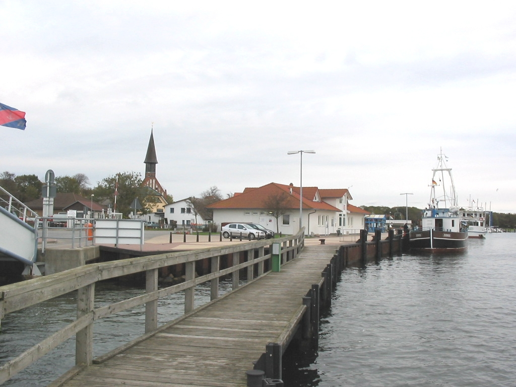 Harbour of Schaprode at Rügen island, Germany